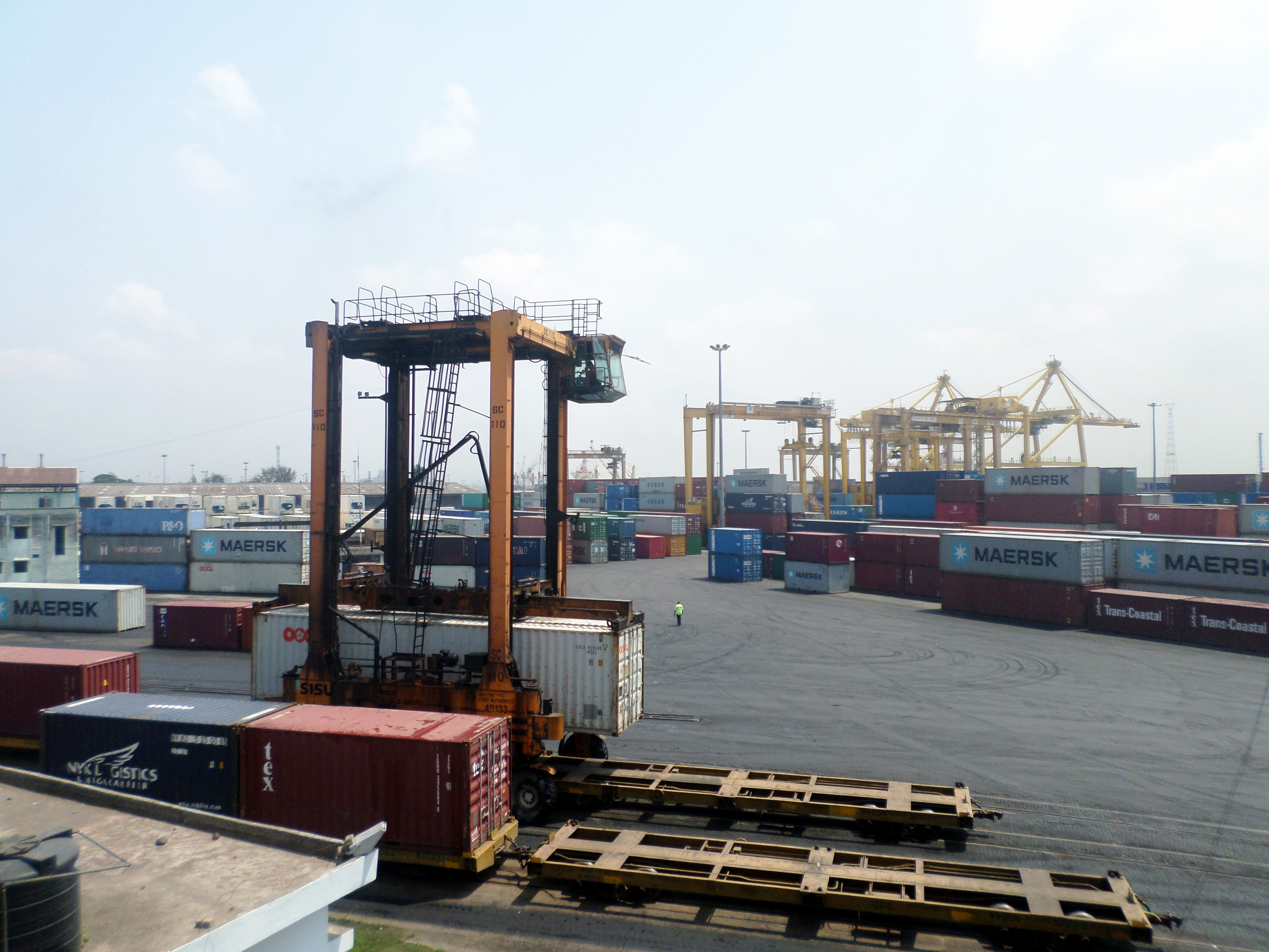 Chittagong Port Area